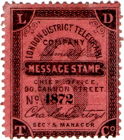 Six pence stamp of the London & District Telegraph Co. Ltd.